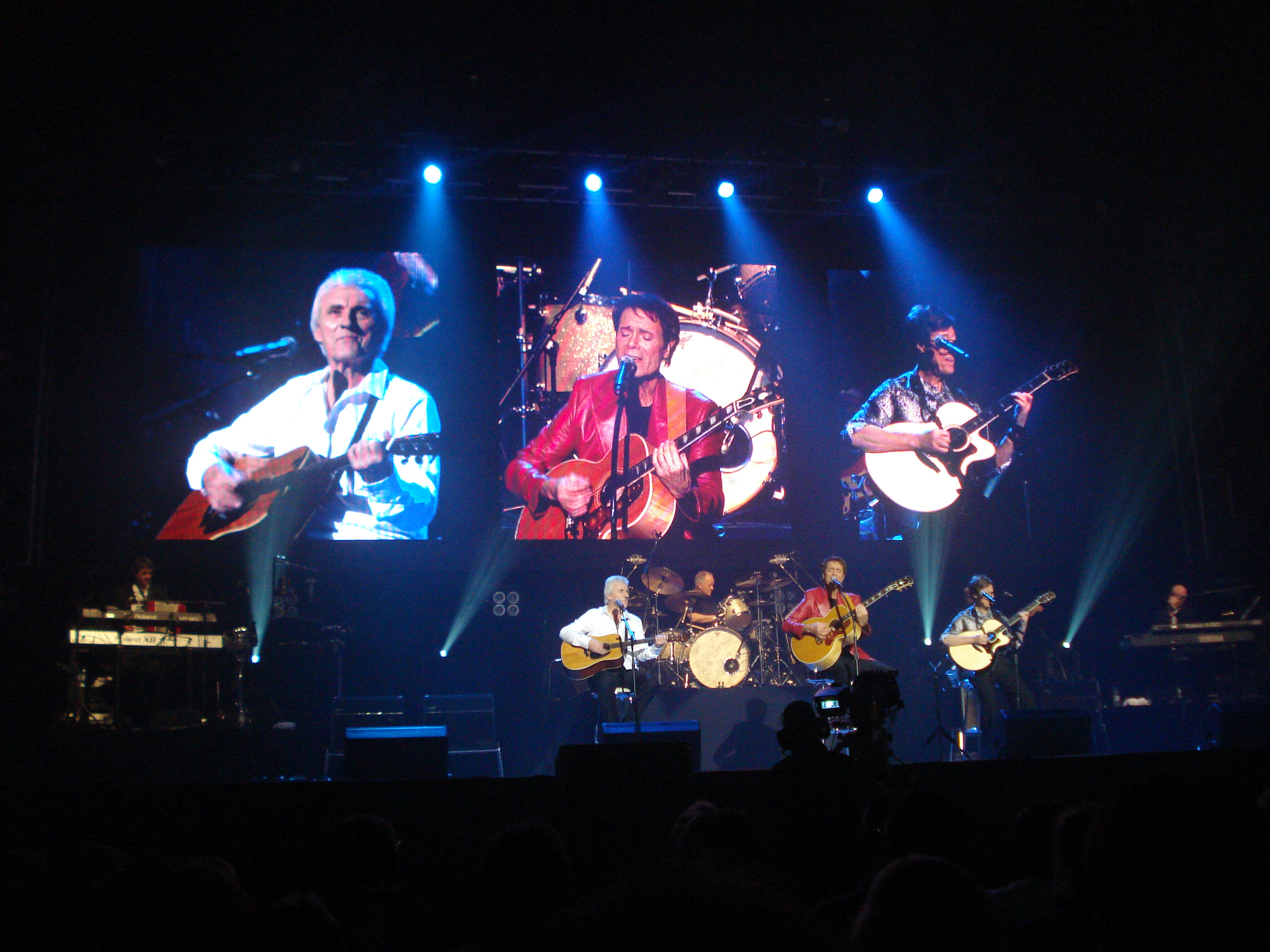 Cliff Richard Shadows Brussels 2009